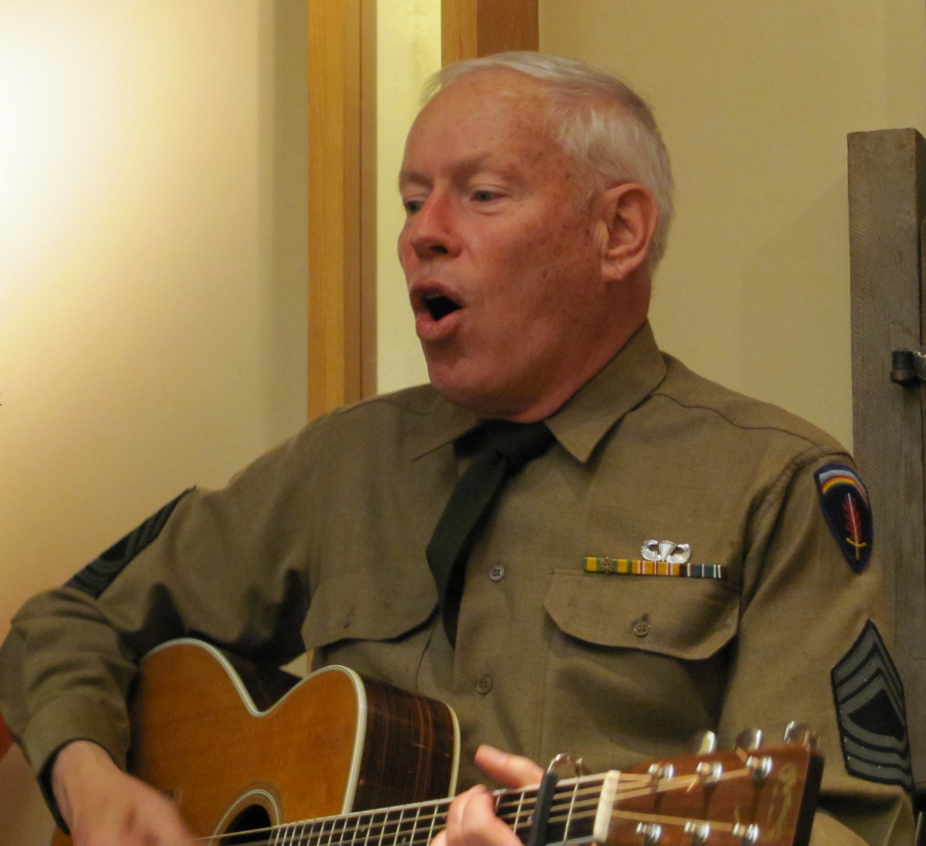 Concert at Boscovs Fairground Mall Reading PA 6-4-11